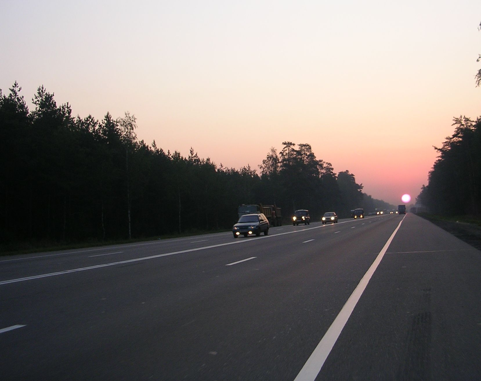 M7 at early morning near Orekhovo-Zuevo